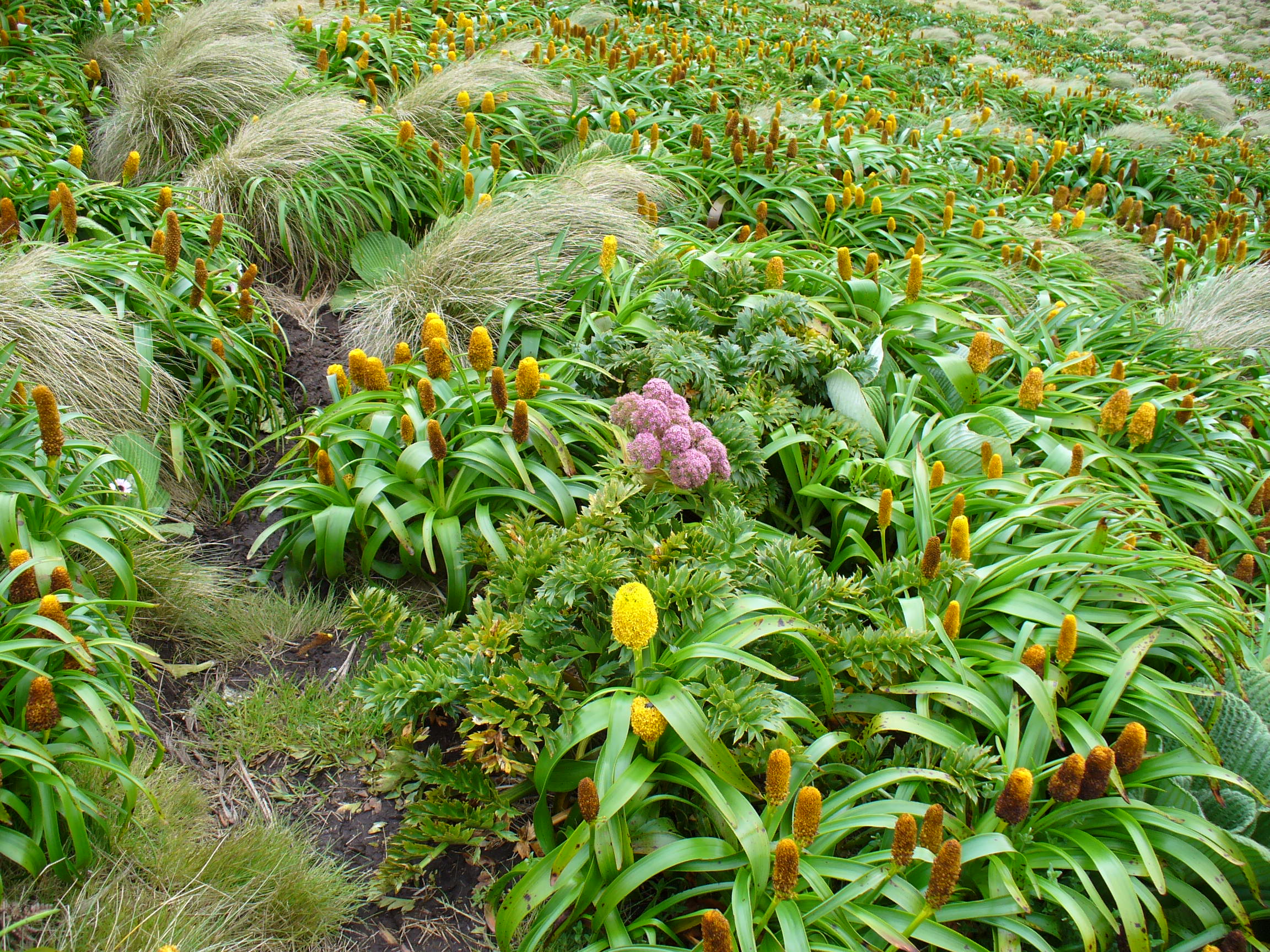 A megaherb community growing on Campbell Island, one of the sub-antarctic islands of New Zealand. The yellow flowers are Bulbinella rossi, the pink flowers are those of Anisotome latifolia, and the pleated leaves on the right of the photograph are those of a Pleurophyllum species. Tussock grass accompanies the megaherbs.